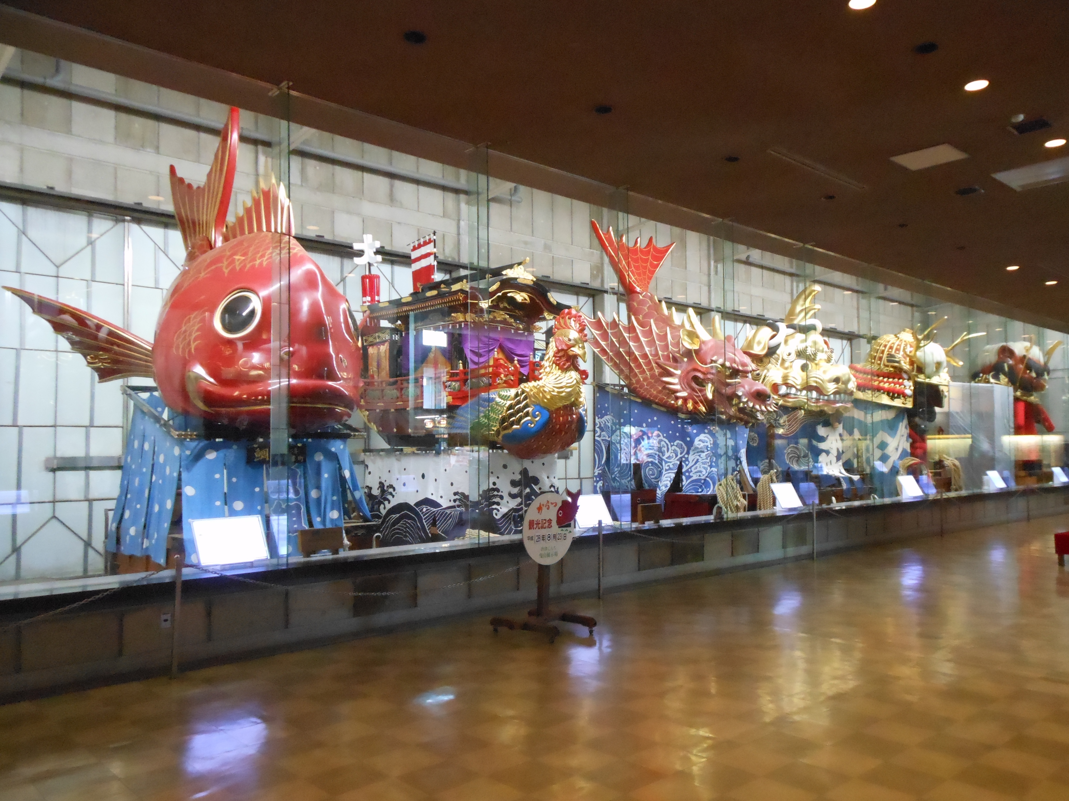 Displayed floats(Hikiyama) of Karatsu Kunchi at Hikiyama Exhibition Hall in Karatsu city.